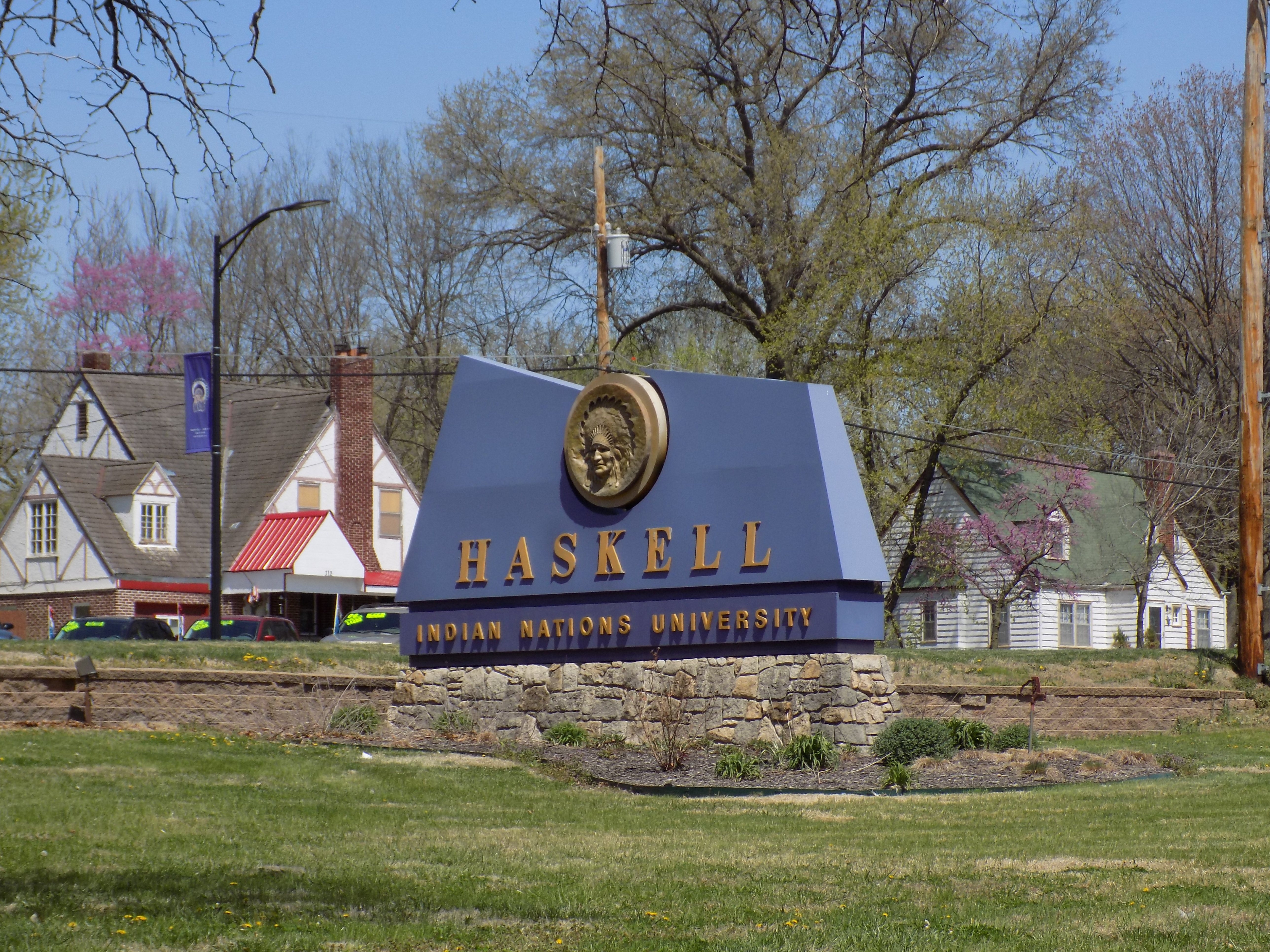 The main sign to Haskell Indian Nations University, located along 23rd Street.